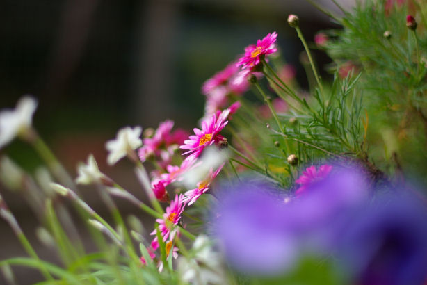 Marguerite at the Center are in Focus, on the other Hand, Blue Pansy in Front is in Blur(Bokeh). A Sample of "Maebokeh"(Flont Blur).